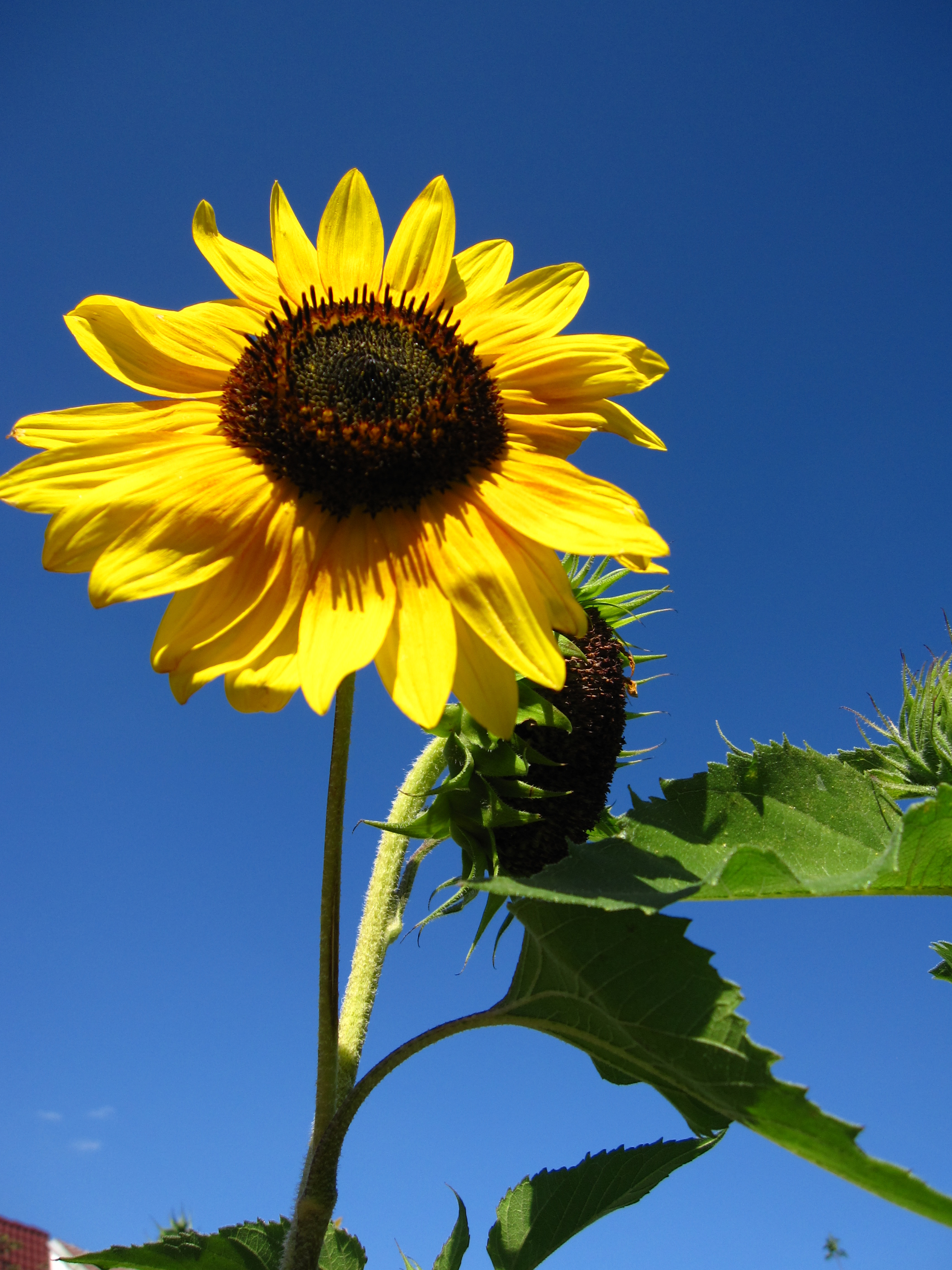 Photo of sunflowers in bloom.